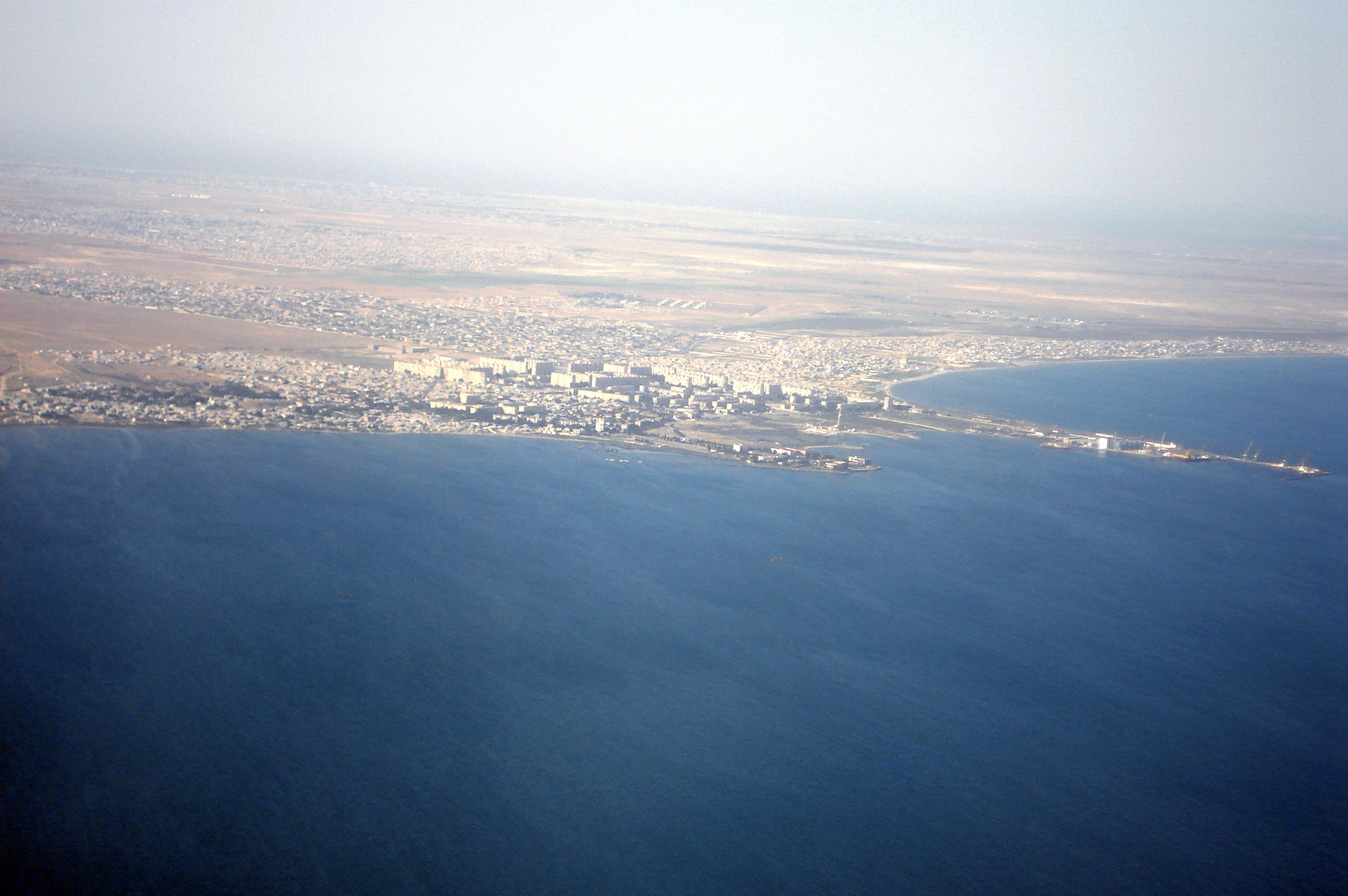 Absheron peninsula view from plane. Hövsan.